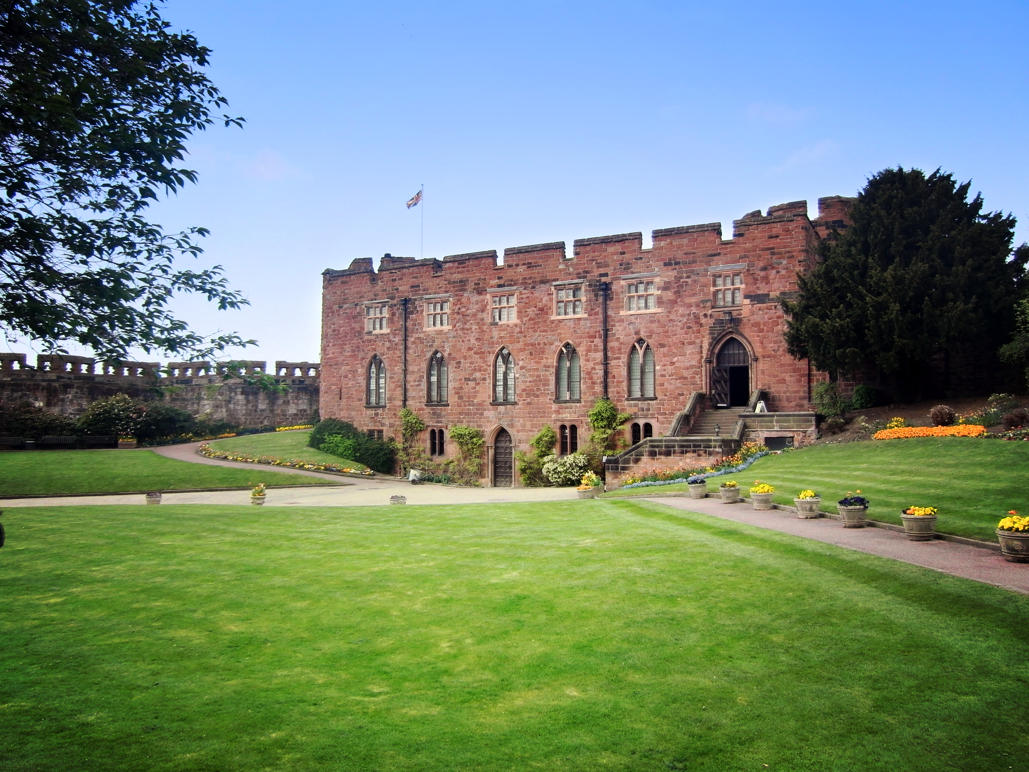 Shrewsbury Castle (The Shropshire (53rd/KSLI) Regimental Museum , Shrewsbury, UK